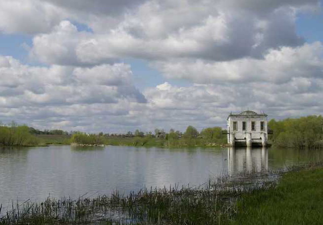 Ichalki HP on Pyana